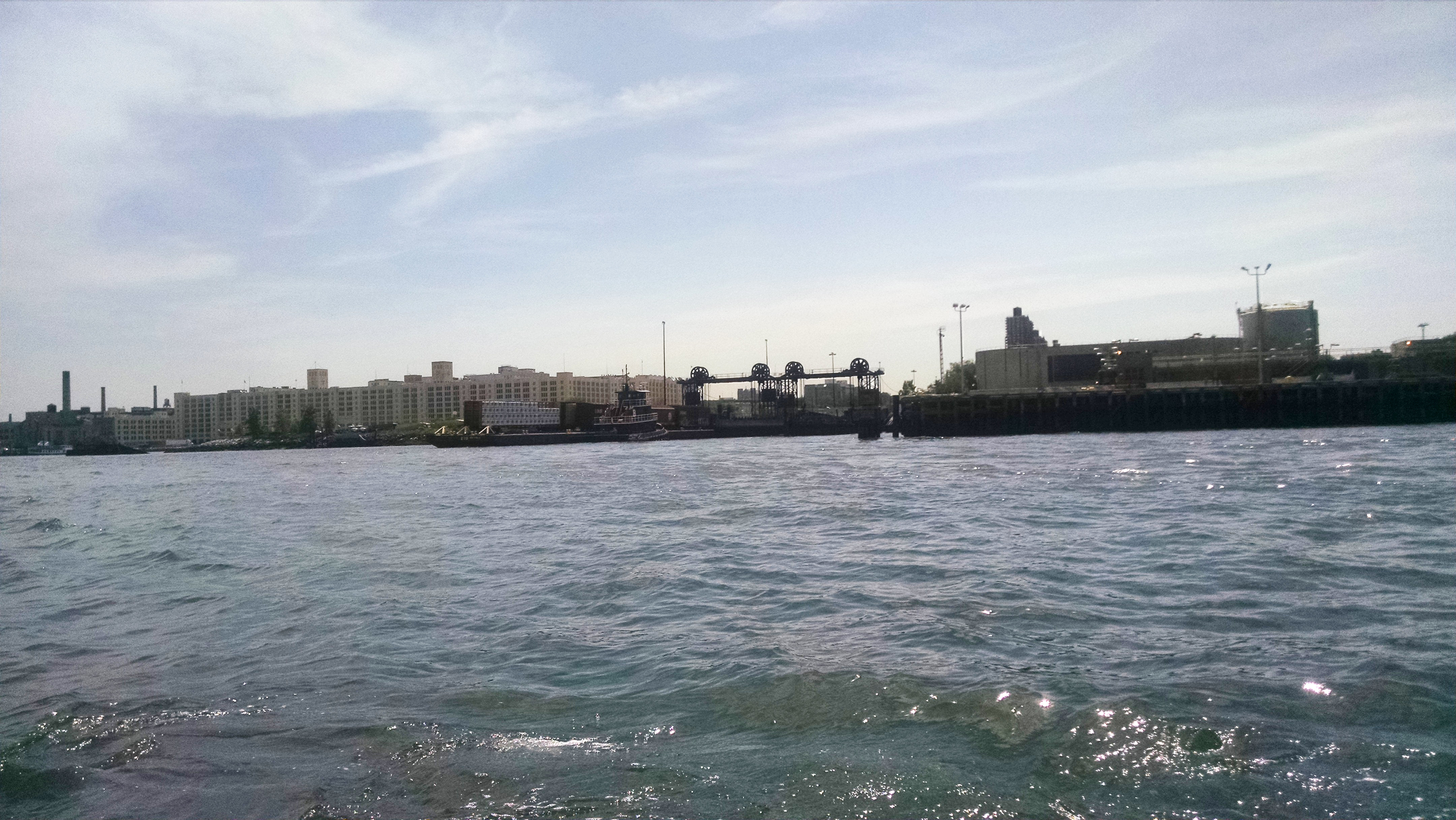 New York Cross Harbor car float in operation at the w:65th Street Yard